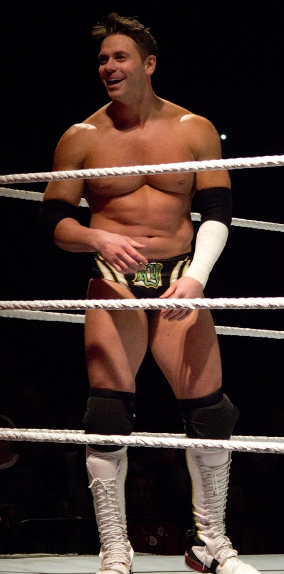 Alex Riley during a WWE house show on February 2, 2013 in Montgomery, Alabama.